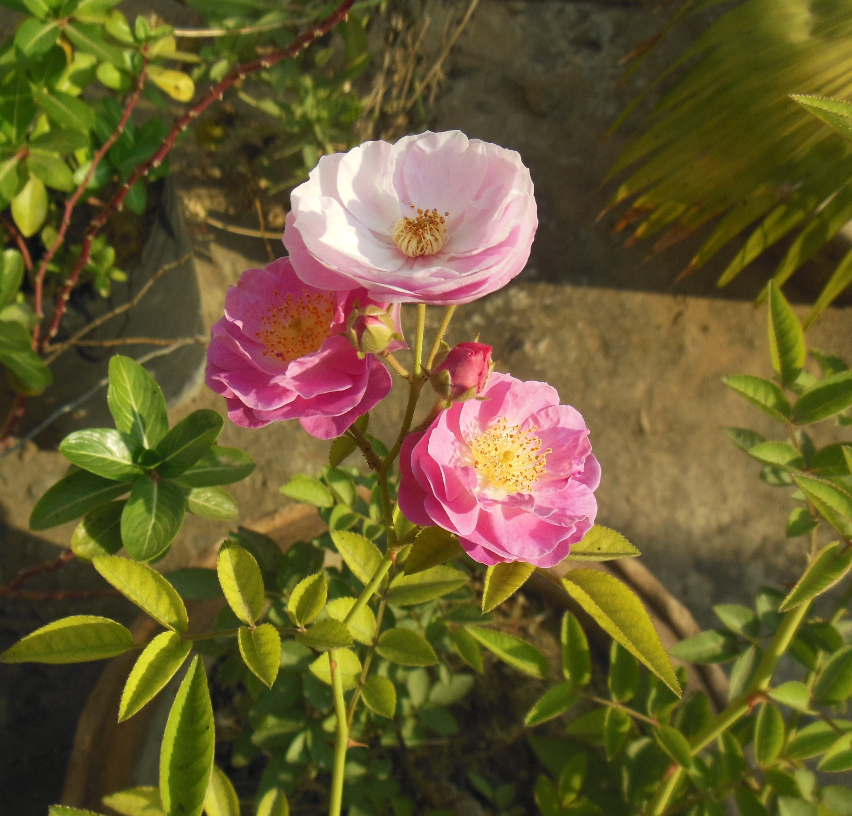 Rosa rubiginosa (sweet briar, sweet brier or eglantine; R. eglanteria) is a species of rose native to Europe and western Asia.